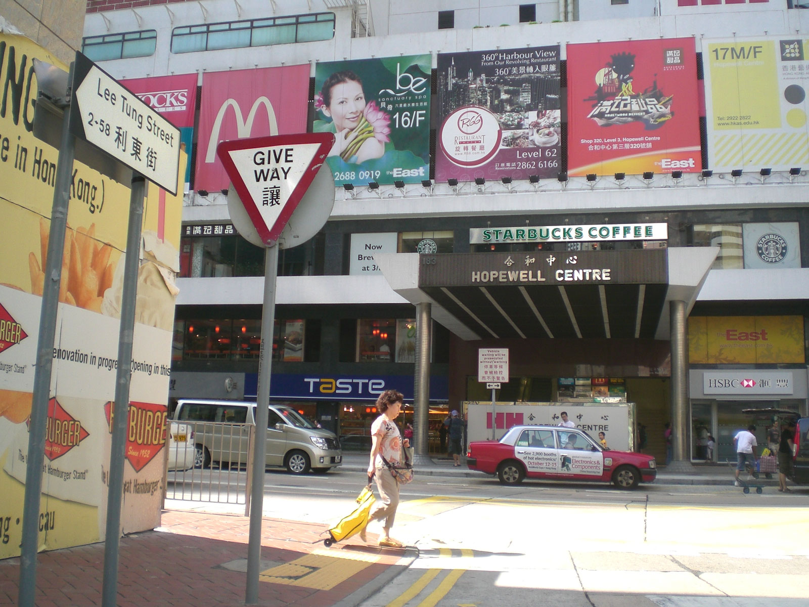 灣仔zh:利東街近zh:合和中心